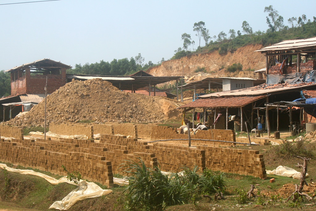 brick factory in a rural area in Quang Ngai Province, Vietnam